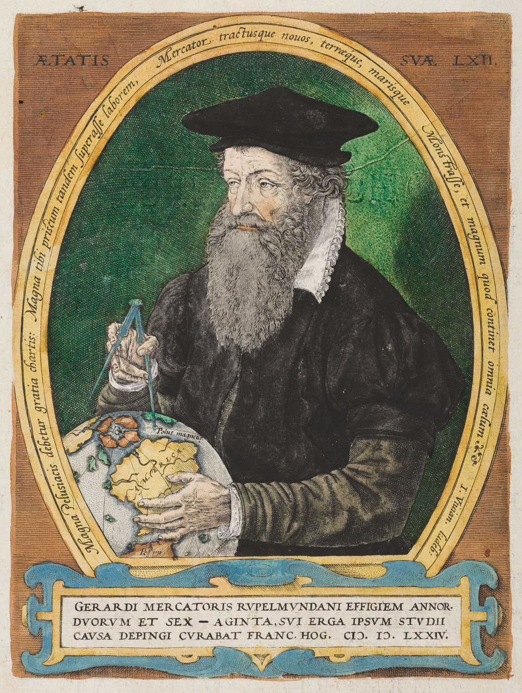 Portrait of Gerardus Mercator